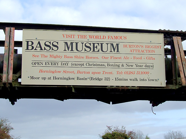 Bass Museum sign near Burton-upon-Trent The pipe bridge over the Trent and Mersey Canal here has for many years displayed an advertisement for the famous Bass Museum of brewing. As Coors (who changed the museum's name to the Coors Visitor Centre in 2003), decided to close the museum in June 2008, it seems crass that this should be left on display; or are they hoping someone will finance and re-open it*? Update 26.11.09 Looks like it will re-open Easter 2010. Someone's taken it on - and the shire horses will be back.